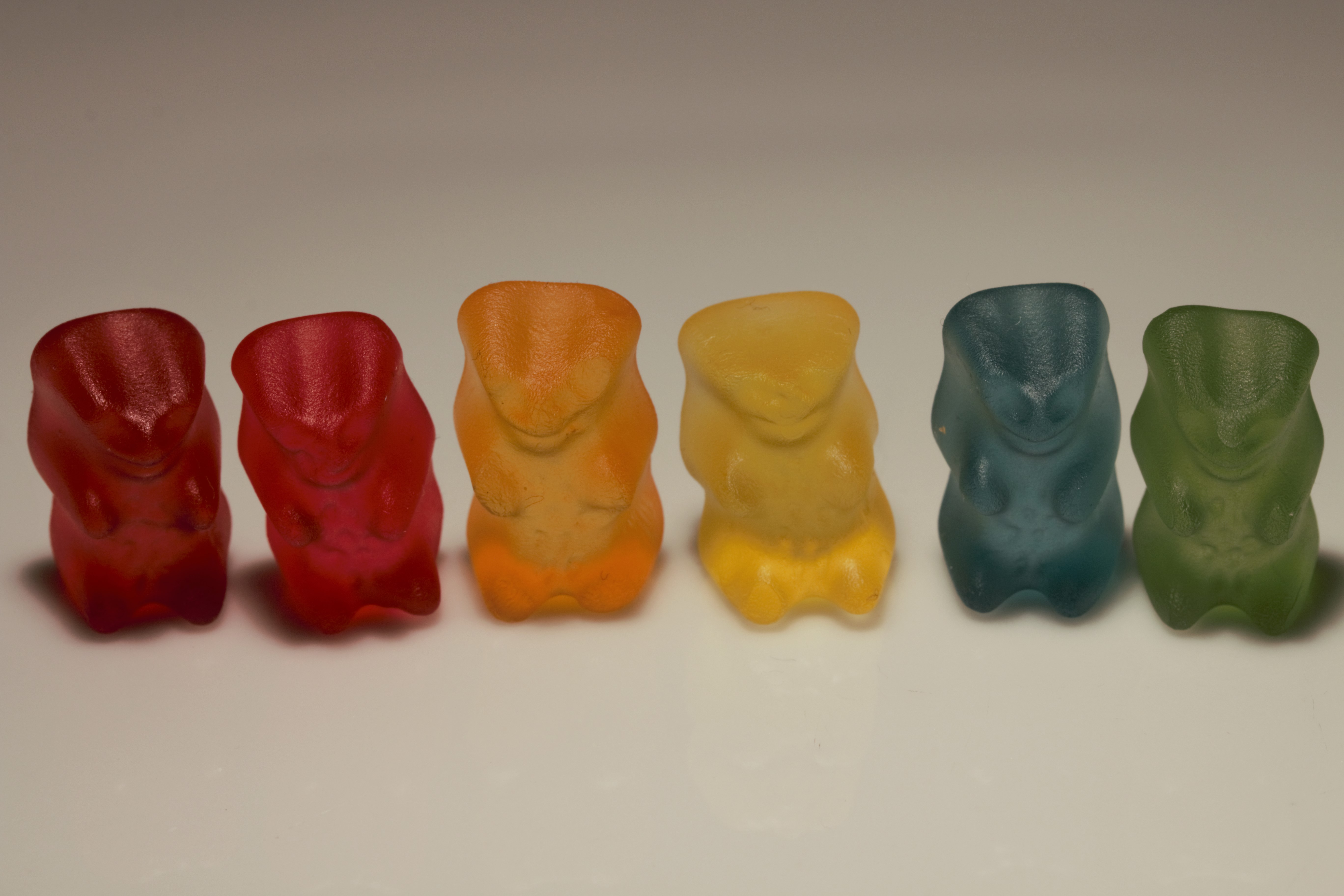 Gummy bear summer edition